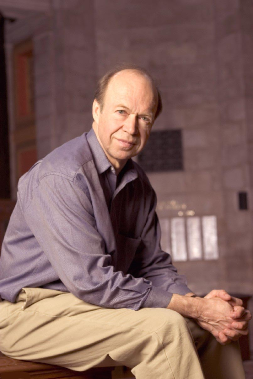 Portrait of James Hansen